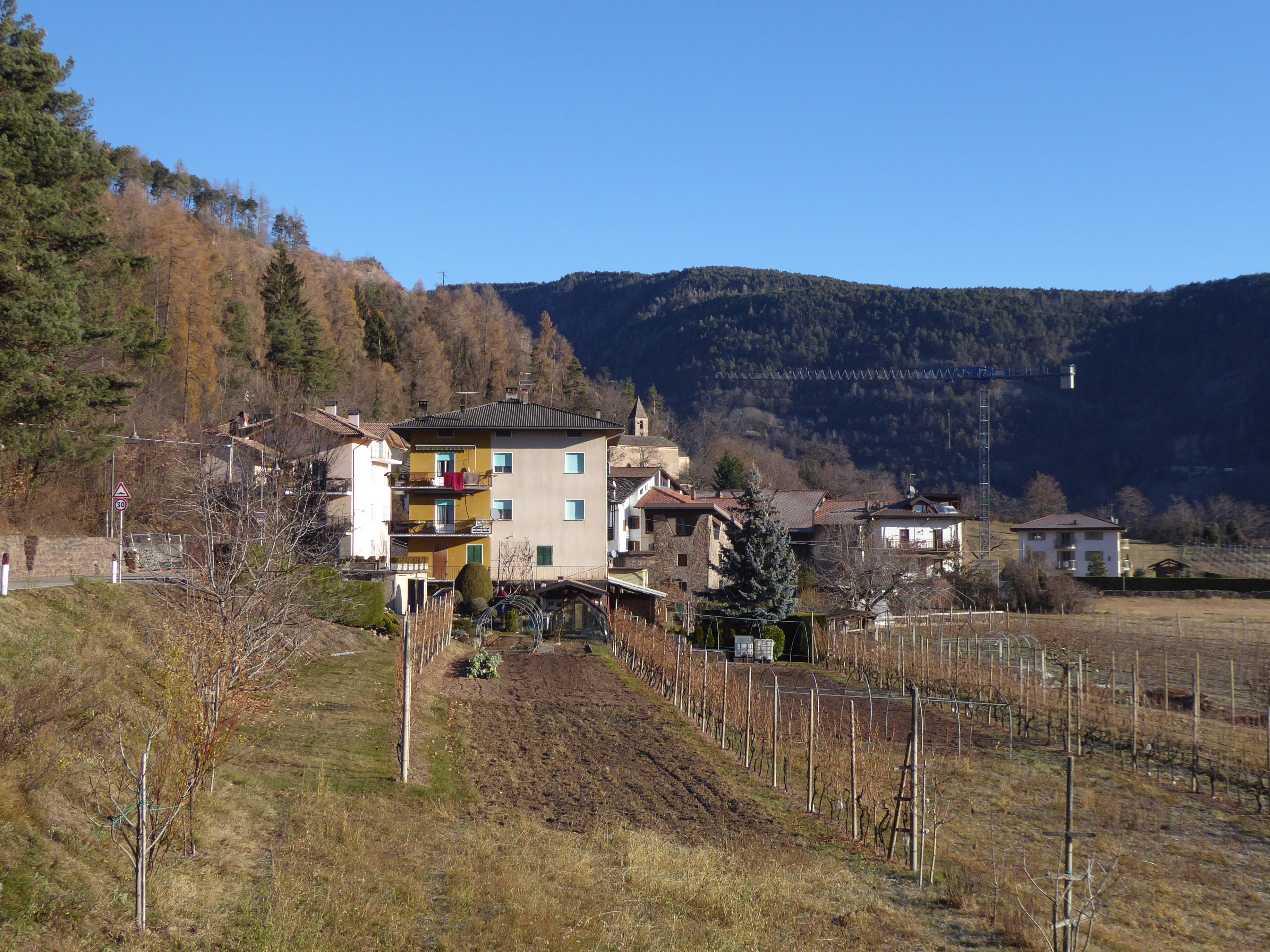 Santo Stefano (Fornace, Trentino, Italy)